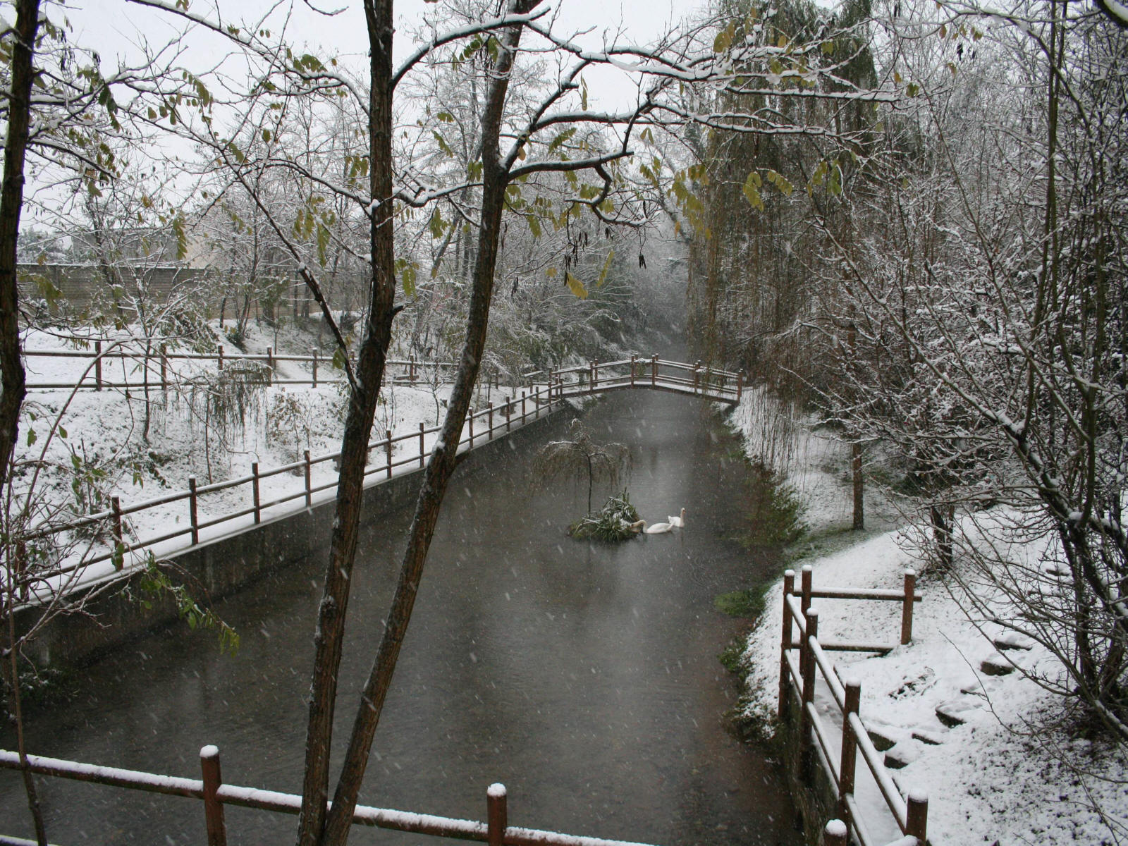 Fontanile Borra with snow in Castellazzo de' Stampi, Corbetta (MI) - Italy